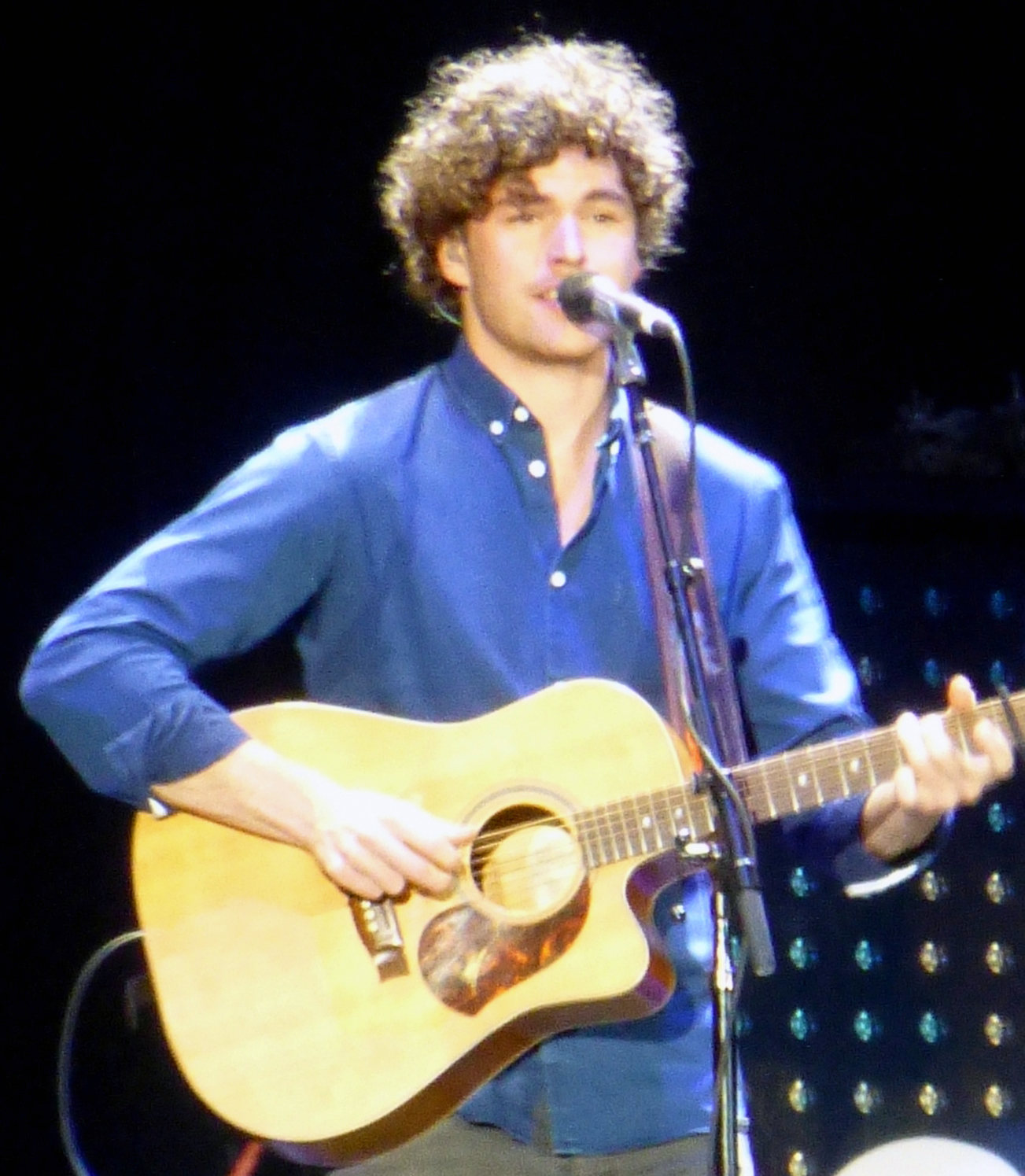 Vance Joy opening for Taylor Swift 1989 Tour at Ford Field in Detroit, 5/30/15